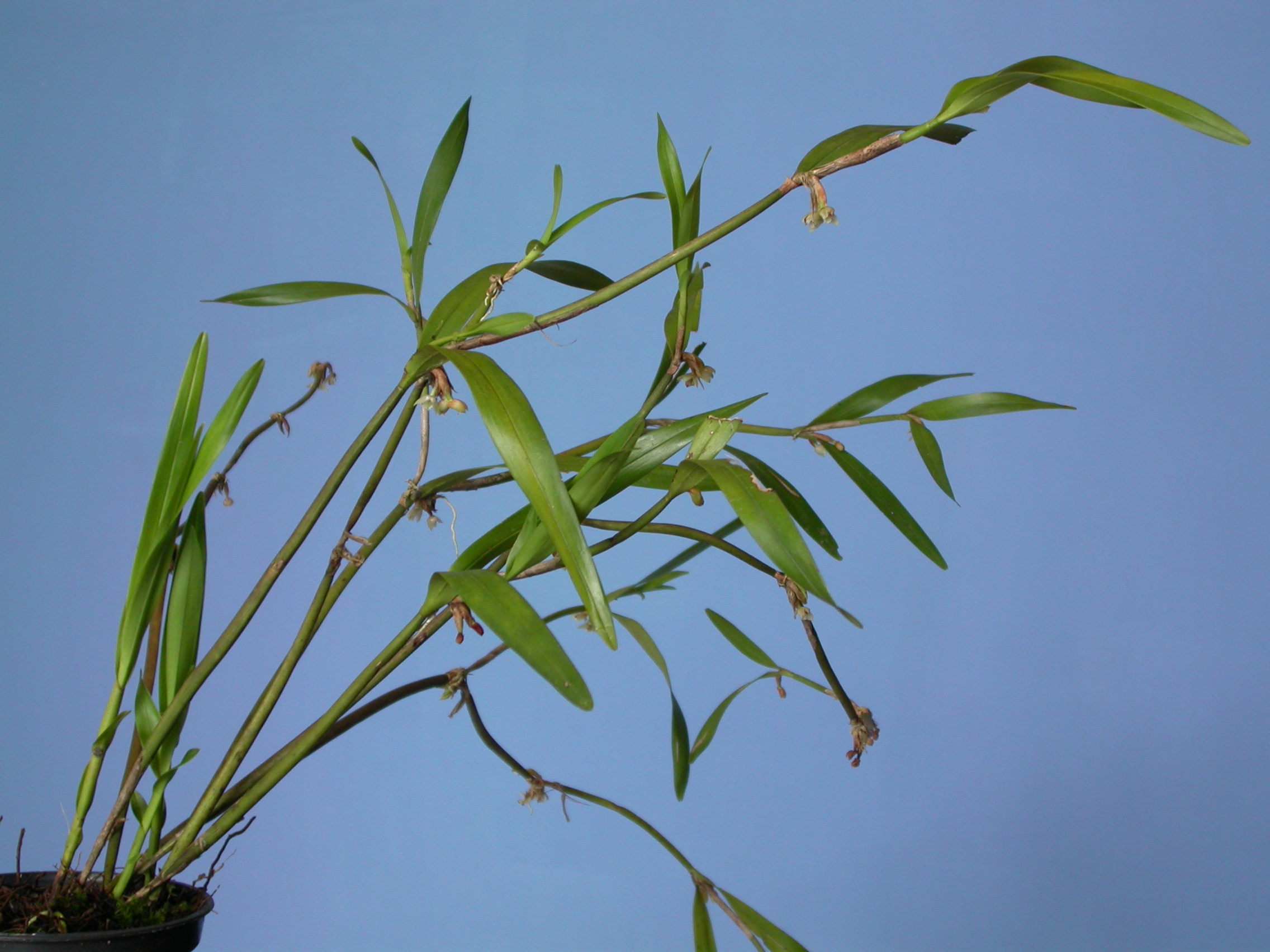 Scaphyglottis modesta plant